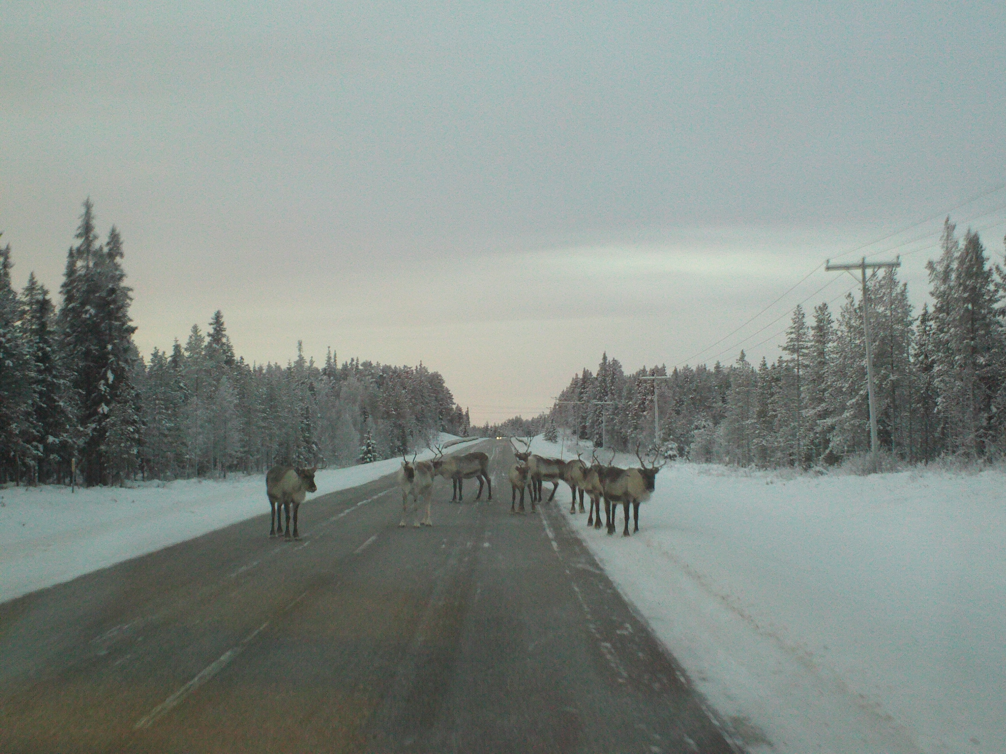 Reindeer on Finnish Highway 81 in Posio, Finland. Rudolph the red nosed reindeer and his friends are taking a leisurely morning stroll in Finnish Lapland.